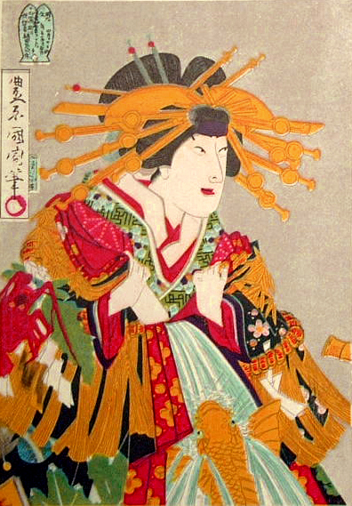 Fukusuke Nakamura IV Narikomaya as Miuraya Agemaki in May 1896 production of Edozakura at Tokyo Kabukiza, portrayed by Kunichika Toyohara.